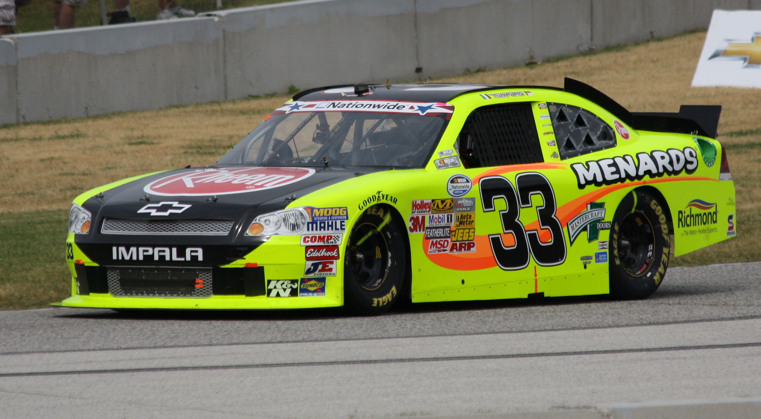 Max Papis NASCAR Nationwide Series car at Road America at the 2012 Sargento 200.